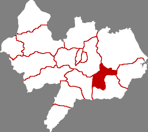 Location of Mengcun Hui Autonomous County in Cangzhou City, China